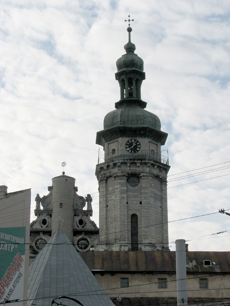 Bernardine church and monastery in Lviv